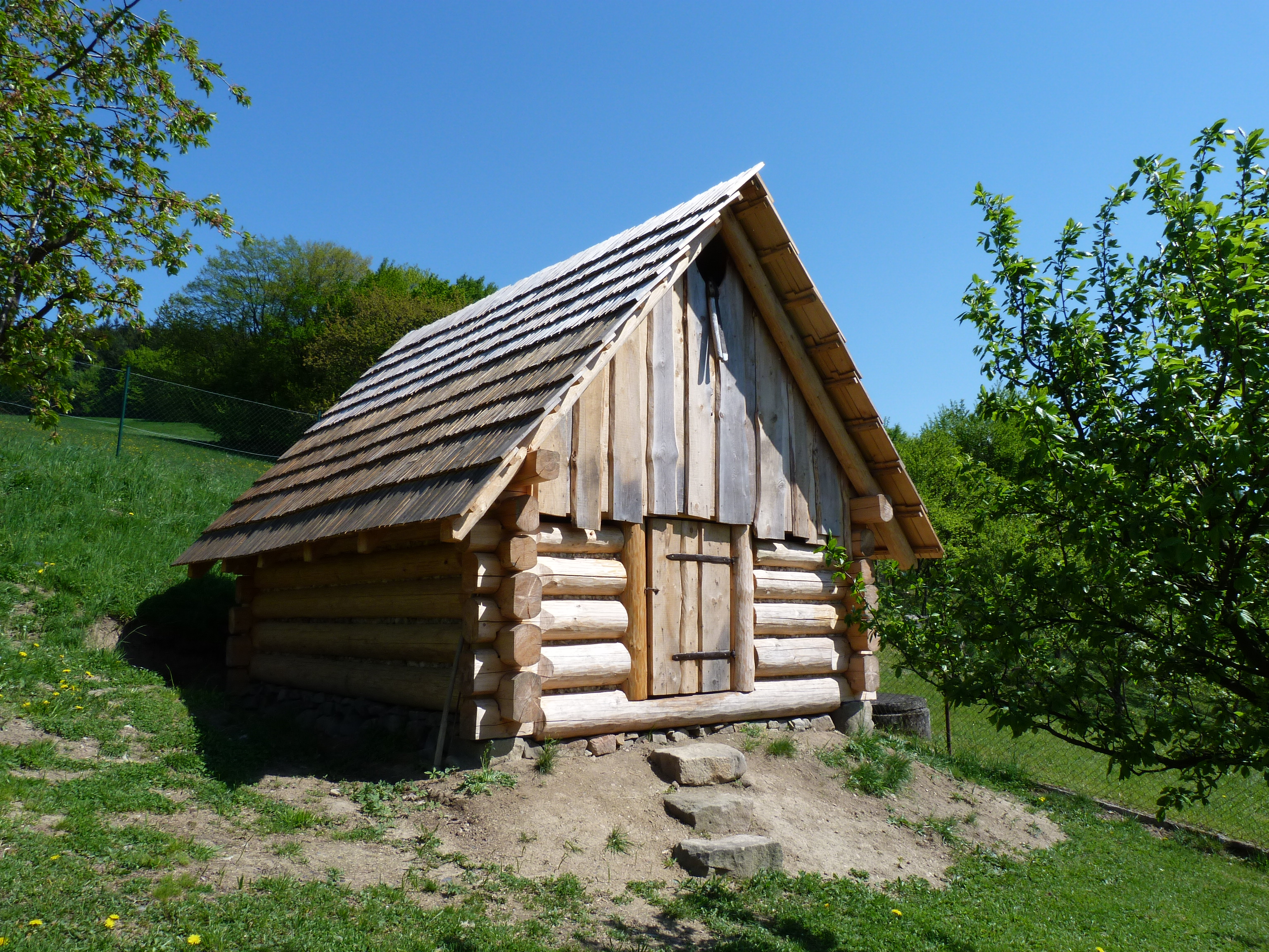 Muzeum